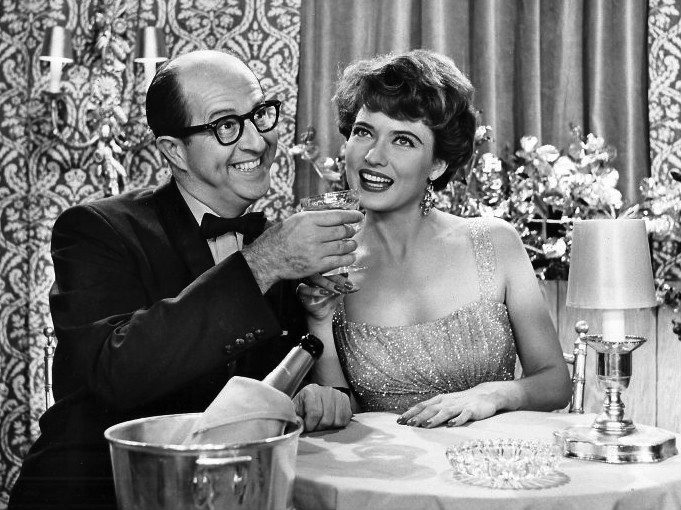 Photo of Phil Silvers as Bilko and Julie Wilson as Hollywood star Monica Malamar. The episode deals with Bilko's romance with the movie star.